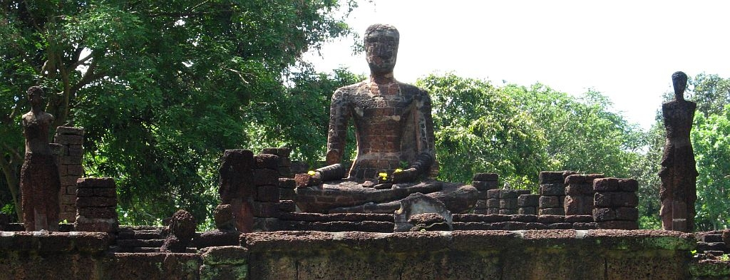 Buddha image of Wat Sing in the Kamphaeng Phet Historical Park